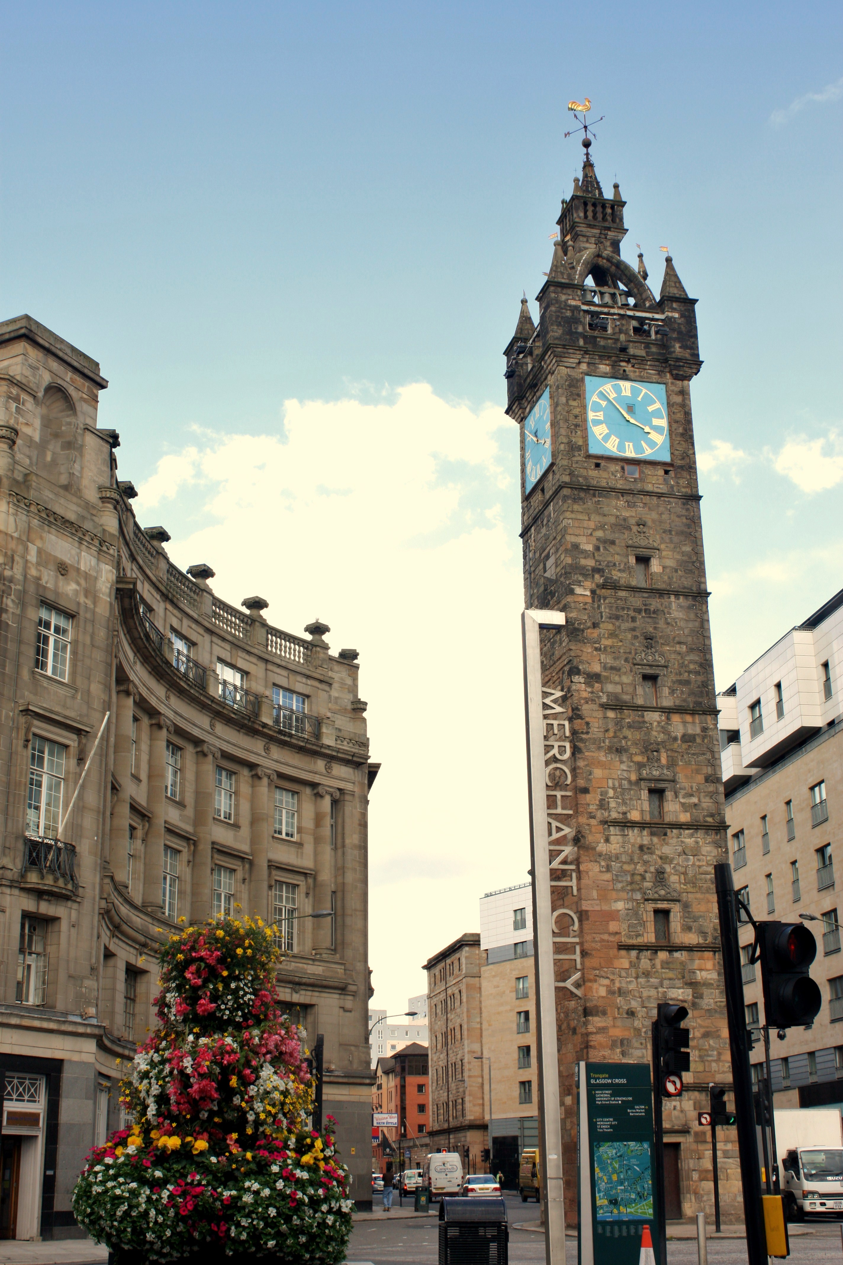 Tolbooth Steeple at Glasgow Cross. Merchant City, Glasgow, Scotland.